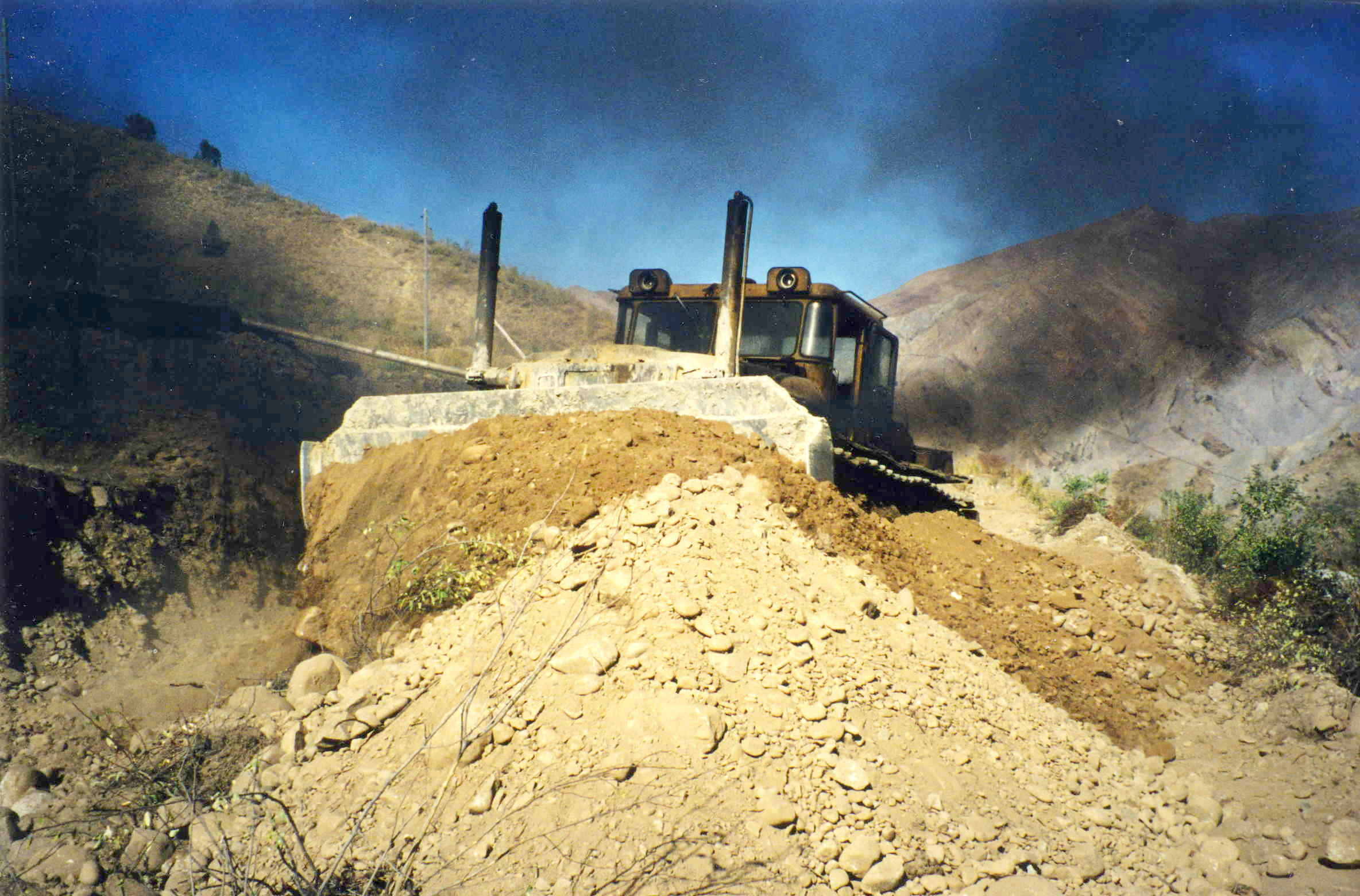 DET-250 moving dirt opening a road at Site 2 for fuel tankers.